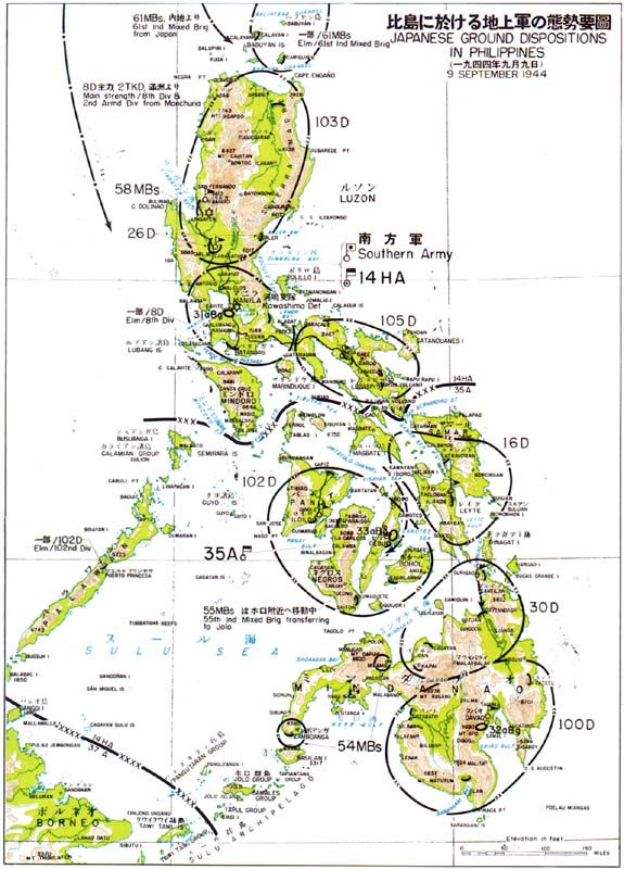 Plan for the First Sho Operation, August 1944-August 1945